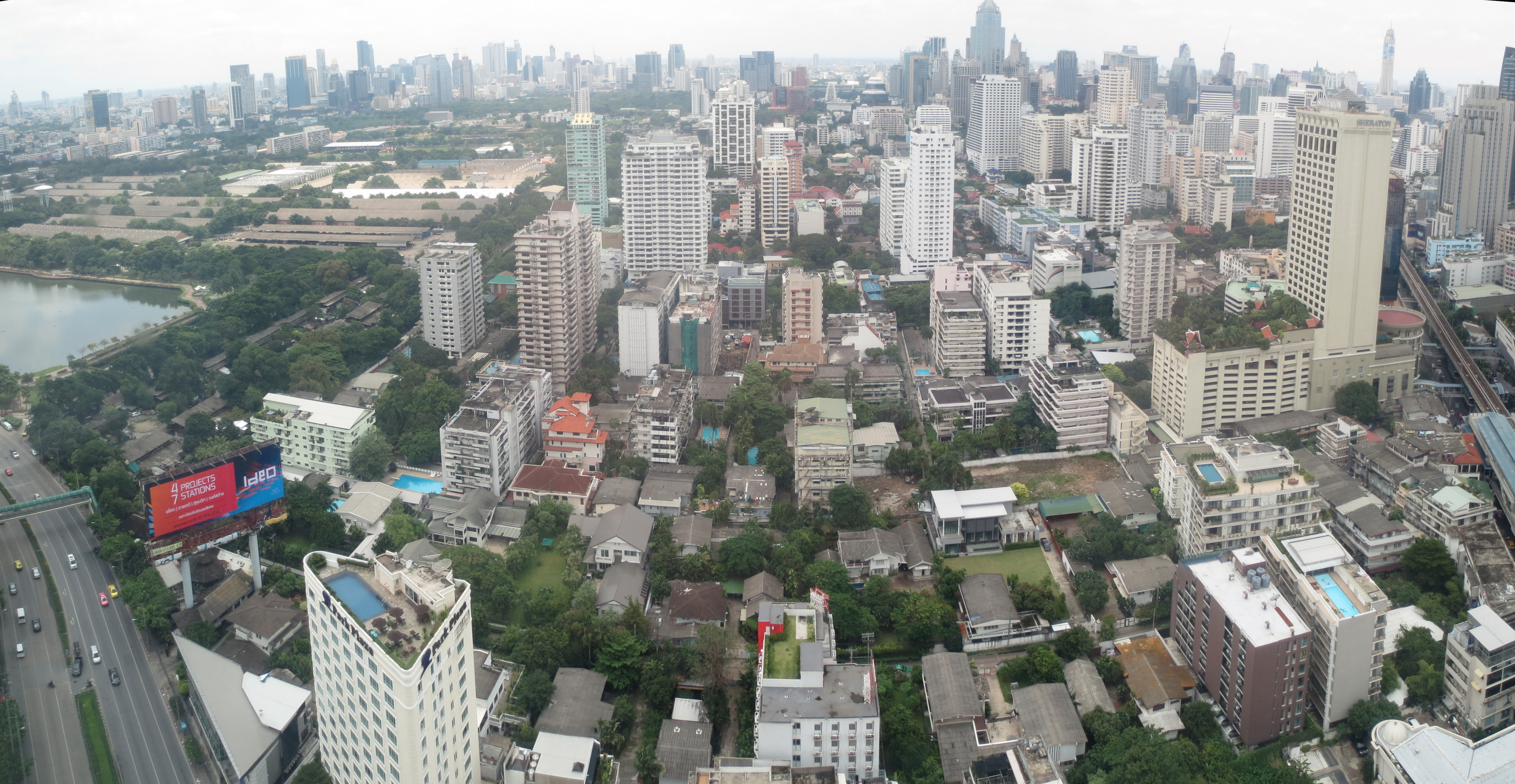 View of Sukhumvit, seen towards west - Bangkok, Thailand. Sukhumvit Road is in the right margin of the image.